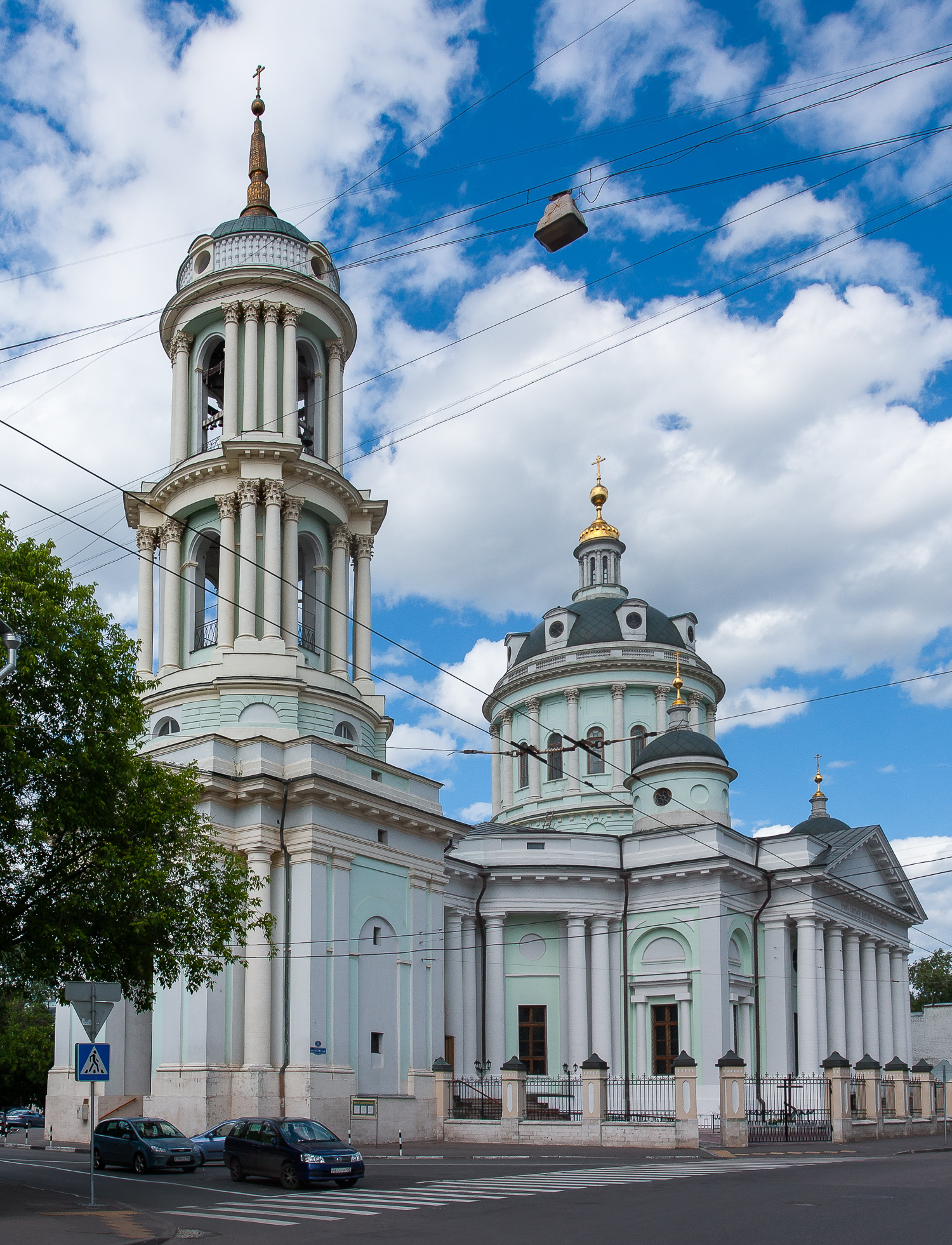 Church of St Martin in Moscow